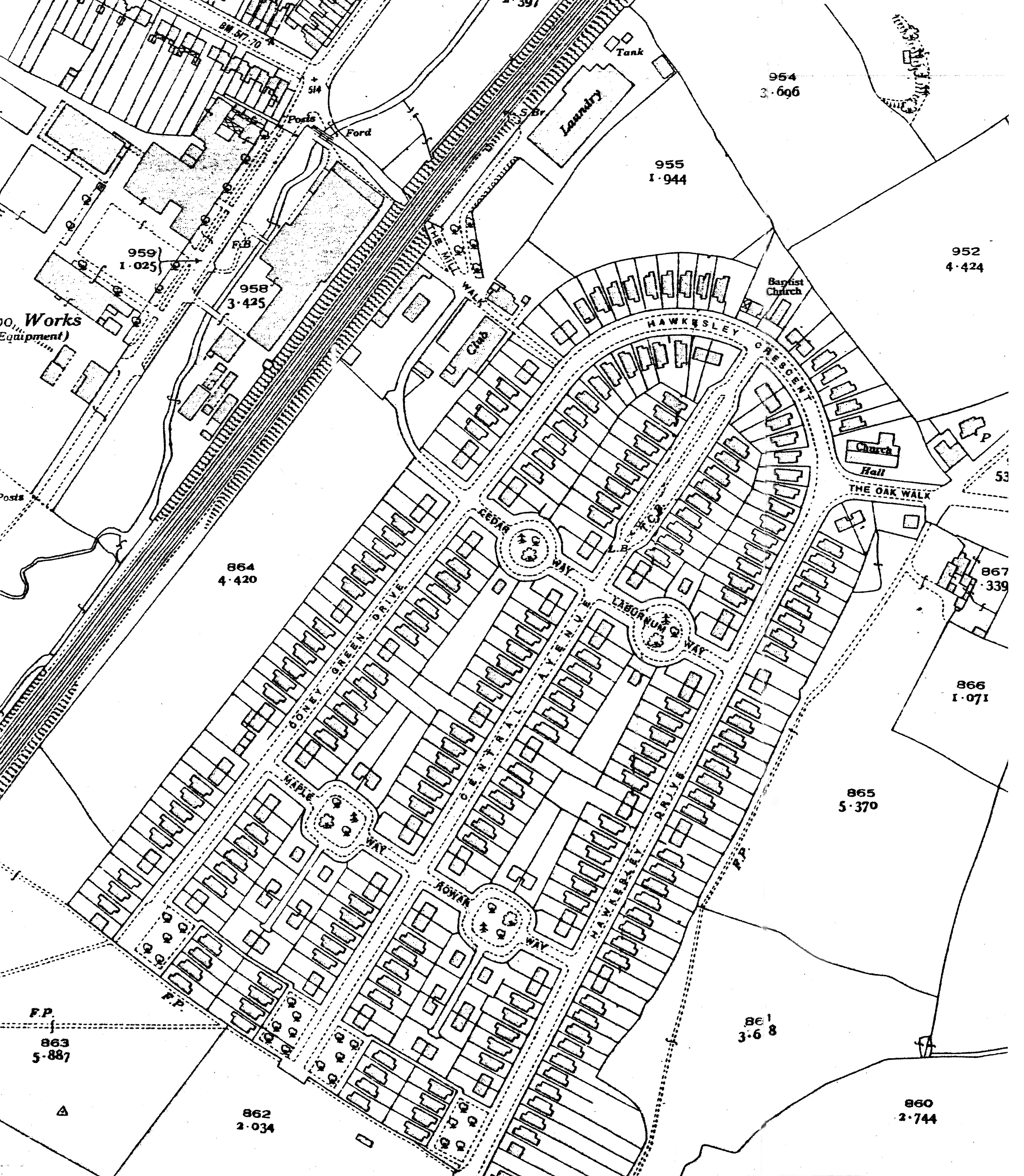 Old OS map of Category:Austin Village between Northfield and Longbridge, Birmingham, England. Retouched to remove paper joins.